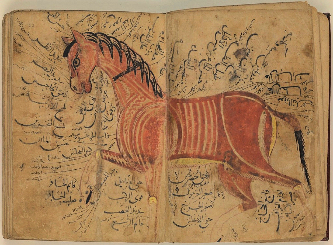 illustration of "the horse's good points", 13th-century manuscript of Kitāb al-bayṭara by Aḥmad ibn ‘Atīq al-Azdī (ms. Or 1523, foll. 22v-23r).